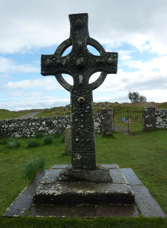 Kildalton Cross, Kildalton, Islay, Argyll and Bute, Scotland. West side.